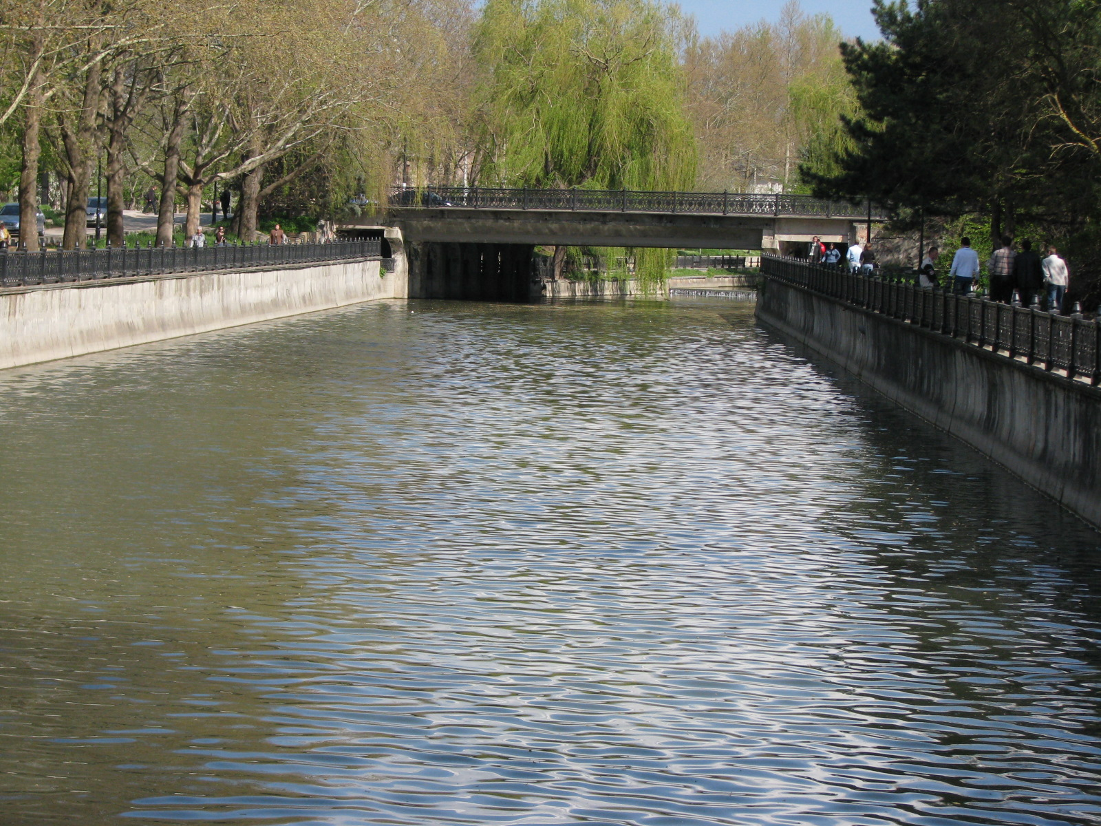 The river Salgir in Simferopol, Сrimea